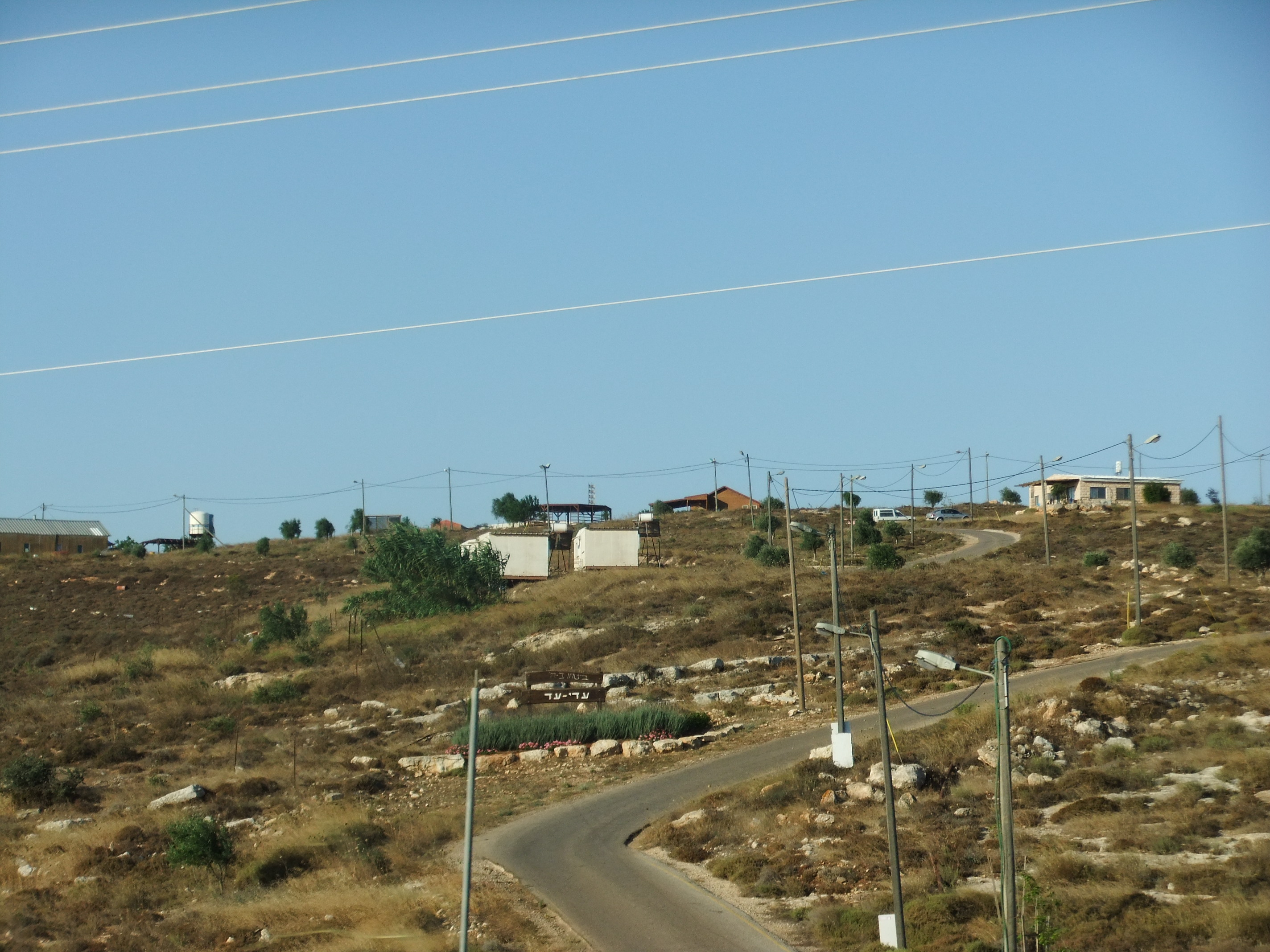 Adei Ad in Shiloh bloc